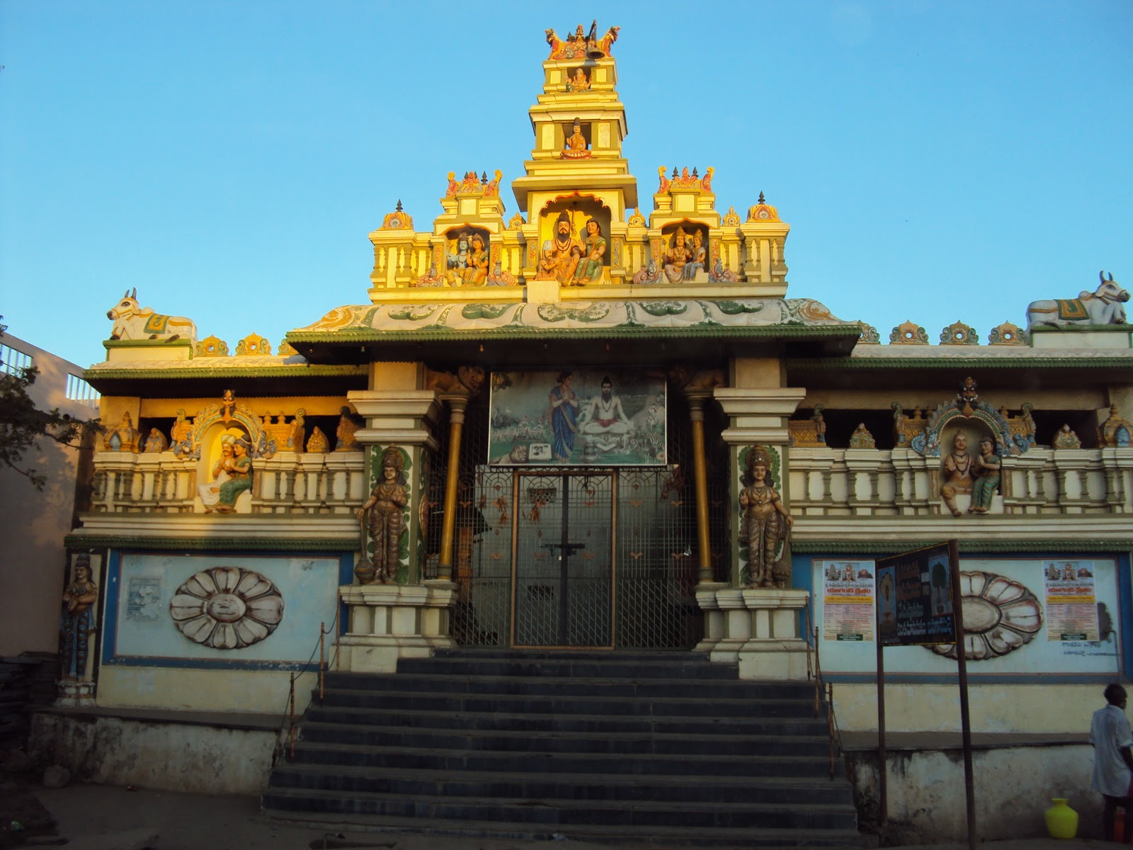 Veerabrahmednra swamy temple- banaganapalle temple - entrace gate - mukhadwara gopuram